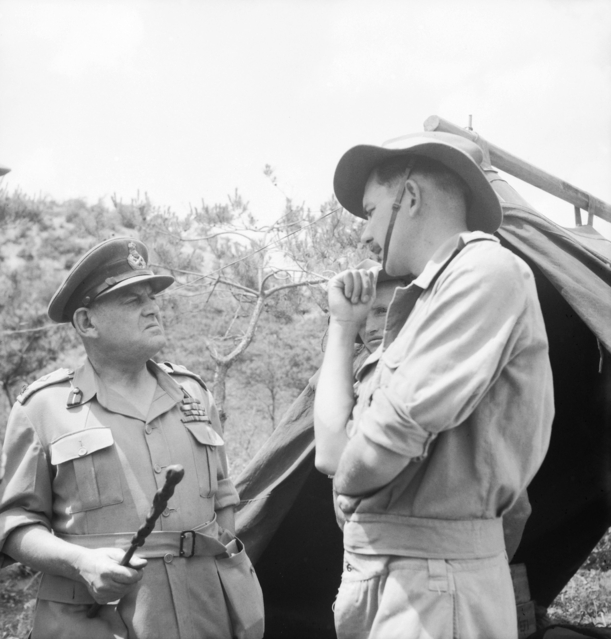 The Director General of Medical Services (DGMS) Major General Frank Kingsley Norris CBE DSO ED (left), discusses the problems associated with medical services with Captain D. Beard of Unley, SA. Captain Beard has been the Medical Officer with the 3rd Battalion, The Royal Australian Regiment (3RAR), for the past six months. AWM accession number: HOBJ2225